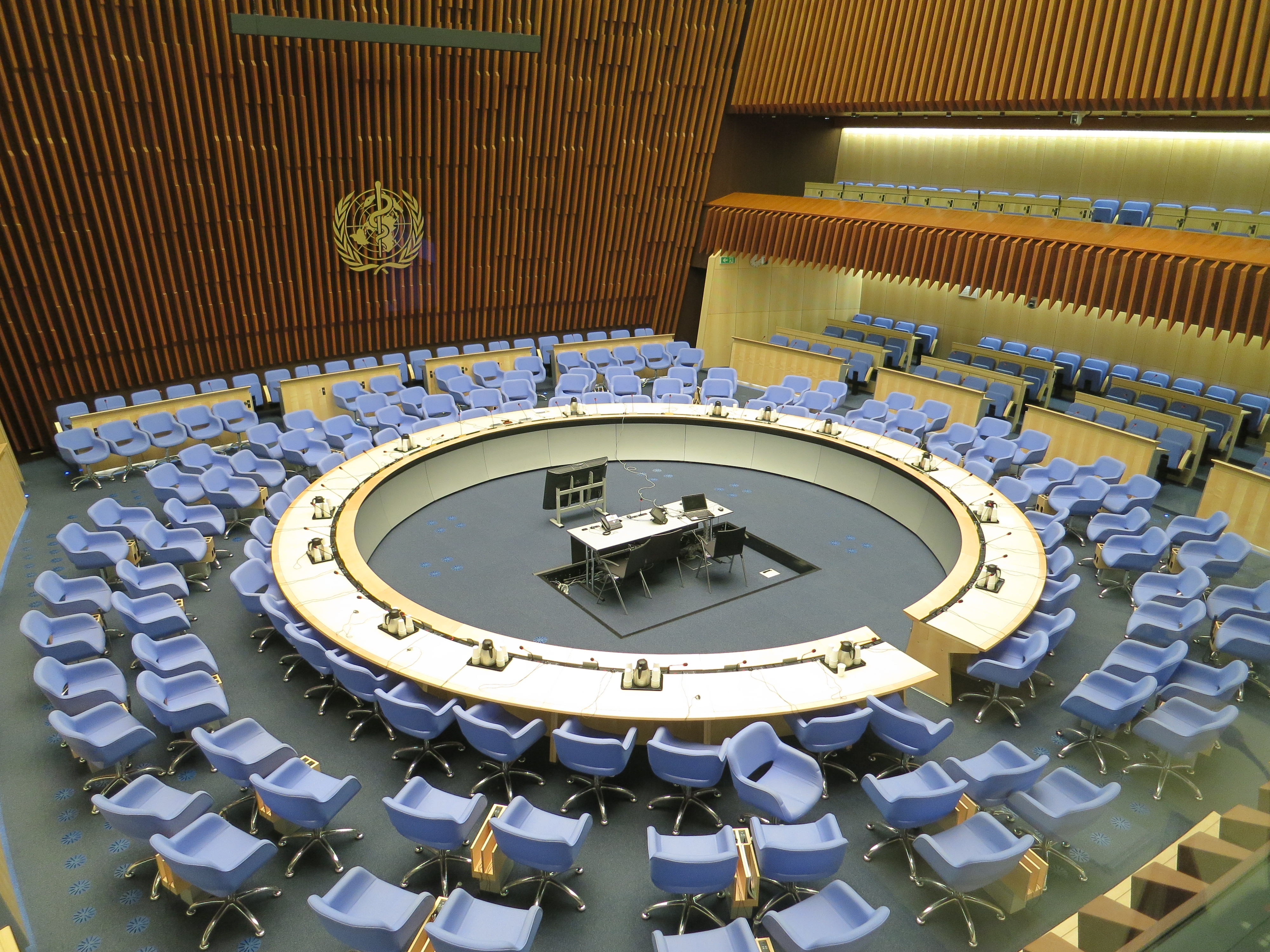 World Health Organization Executive Board Room